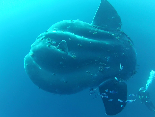 This is a Photo by Erik van der Goot, used with permission, provided to FishBase by Marianne Nyegaard, of a ray-finned species, Mola alexandrini, senior synonym of Mola ramsayi, i.e., Bump head sunfish or southern sunfish. Bump seen in the picture is not present in all the specimens but a common identification is in scalloped clavus , round and bumped forehead and chin